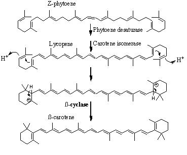 beta carotene synthesis